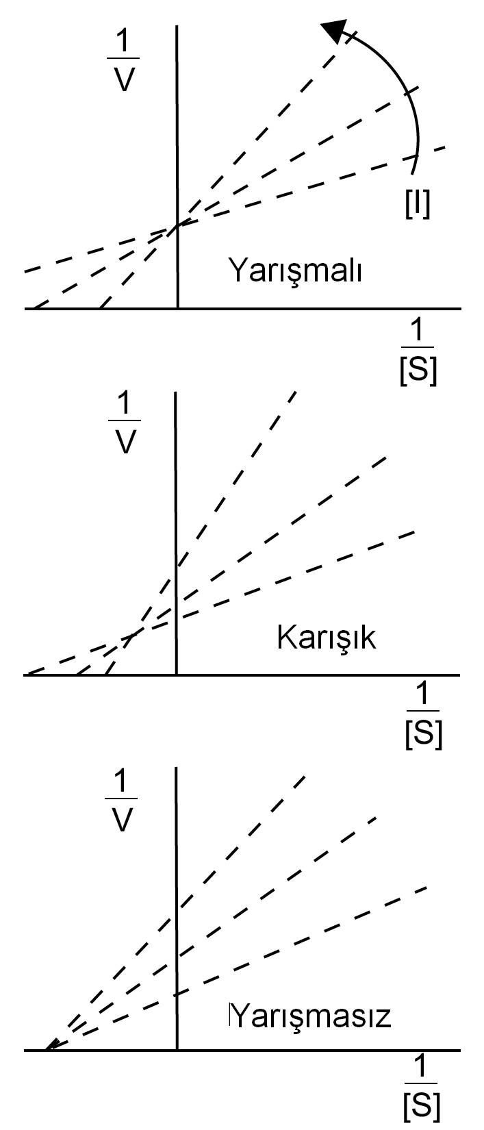 Lineweaver–Burk plots of different types of reversible enzyme inhibitors. The arrow shows the effect of increasing concentrations of inhibitor.